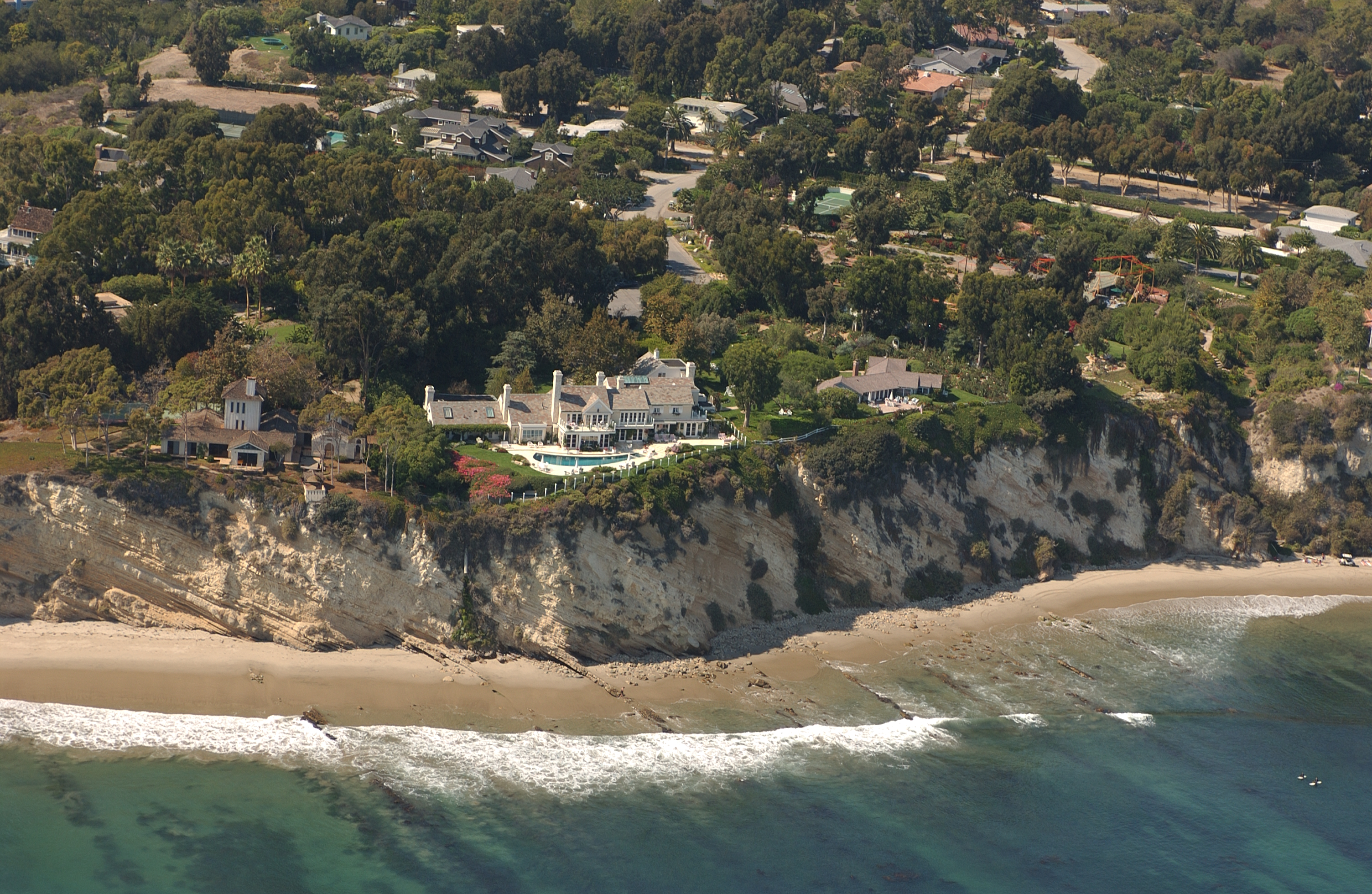 This photograph was made famous when singer Barbra Streisand sought to have its publication suppressed, on grounds of privacy. The "Streisand Effect" is a term that evolved from the controversy, referring to the unintentional consequence of increasing public awareness of something through seeking to suppress information. Image description as given at California Coastal Records Project: Streisand Estate, Malibu. N34 00.65. W118 47.24. Image 3850. Mon Sep 23 13:30:47 2002.See also Wikisource: Streisand v. Adelman, assessment by United States House Committee on the Judiciary, analysis by United States House Committee on the Judiciary.